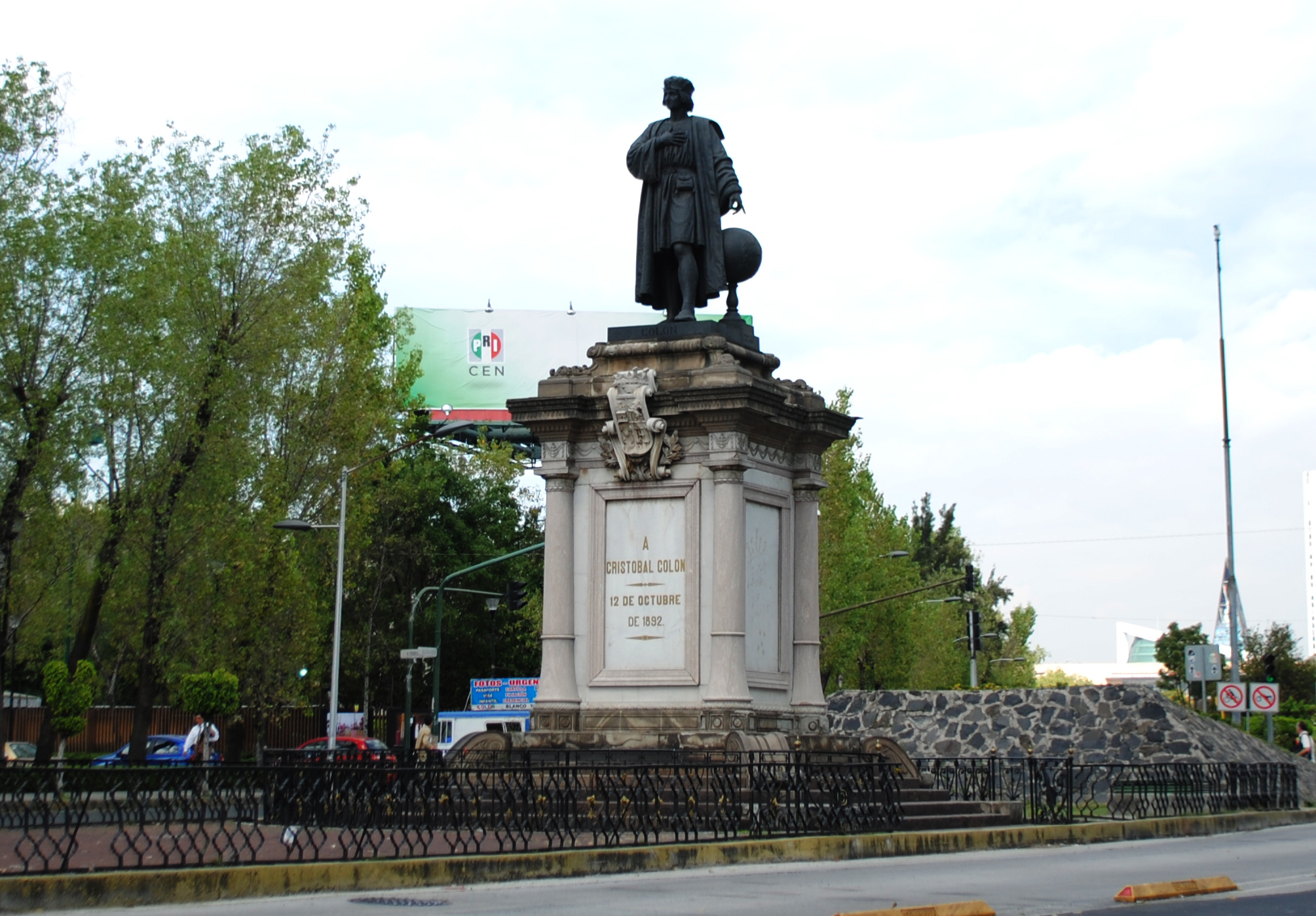 The Christopher Columbus monument in Mexico City inaugurated in 1892 is located at the roundabout formed by the intersection of the Buenavista and Railroad Heroes in Cuauhtemoc Mexico City.